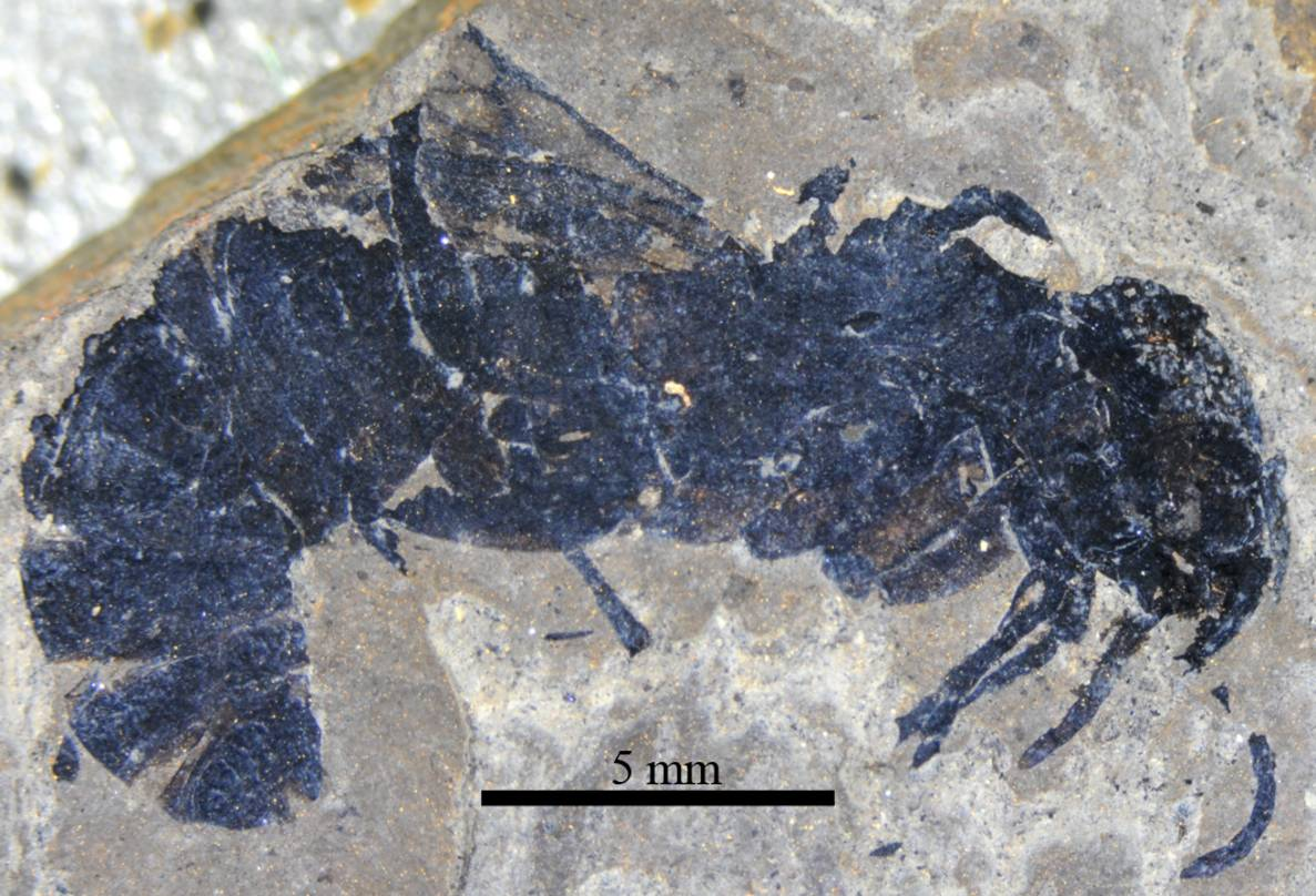 Lateral view of the Protopone magna holotype. Specimen SMFMEI8790